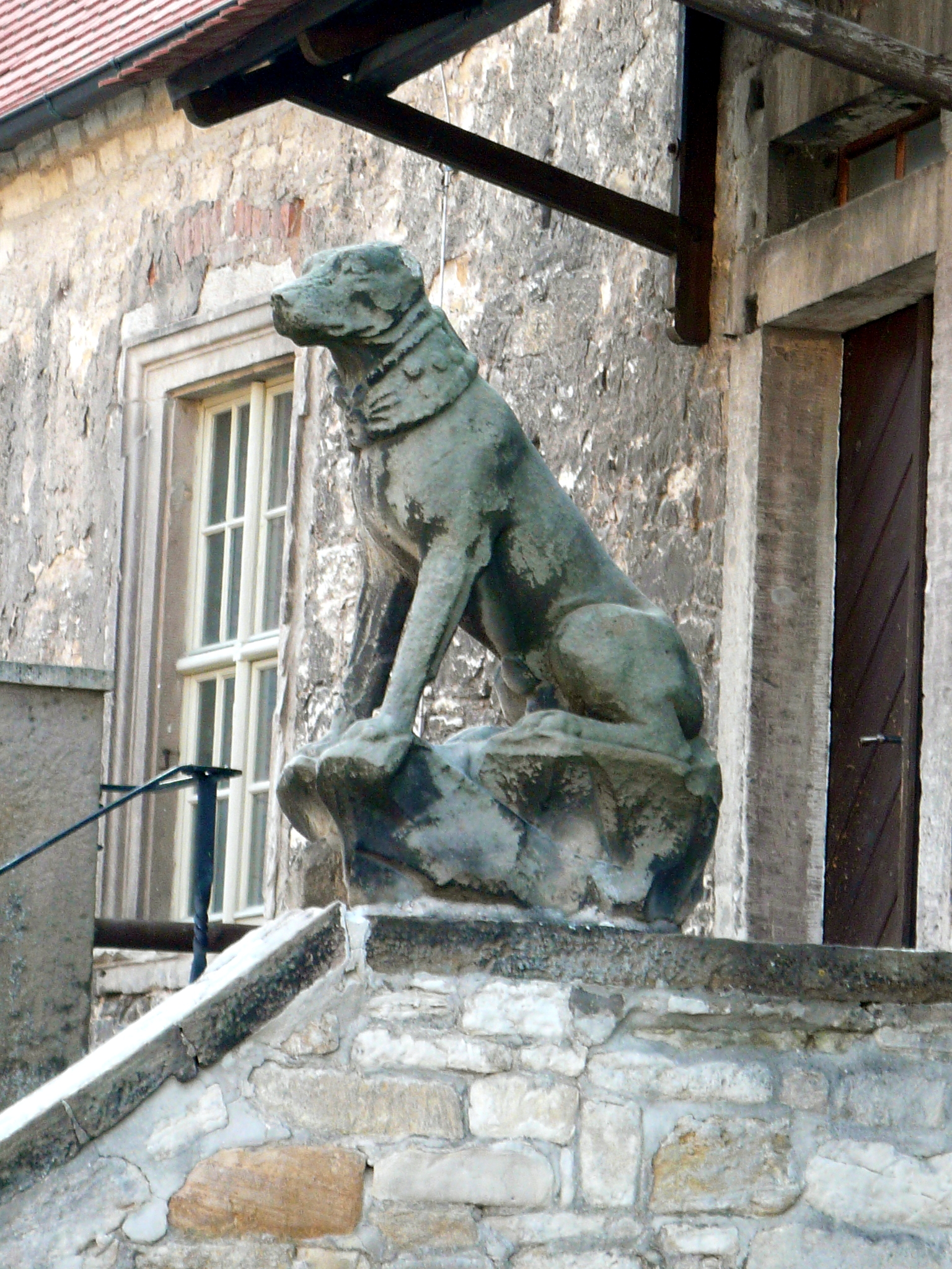 Sculpture a Weimaraner hunting dog at the castle on the river Unstrut Neuchâtel Freyburg, Saxony-Anhalt, Germany, 16 Century 51.208544 °, 11.775478 ° Schloss Neuenburg (Freyburg) Dowelled sculpture in sandstone, and ears were no longer available